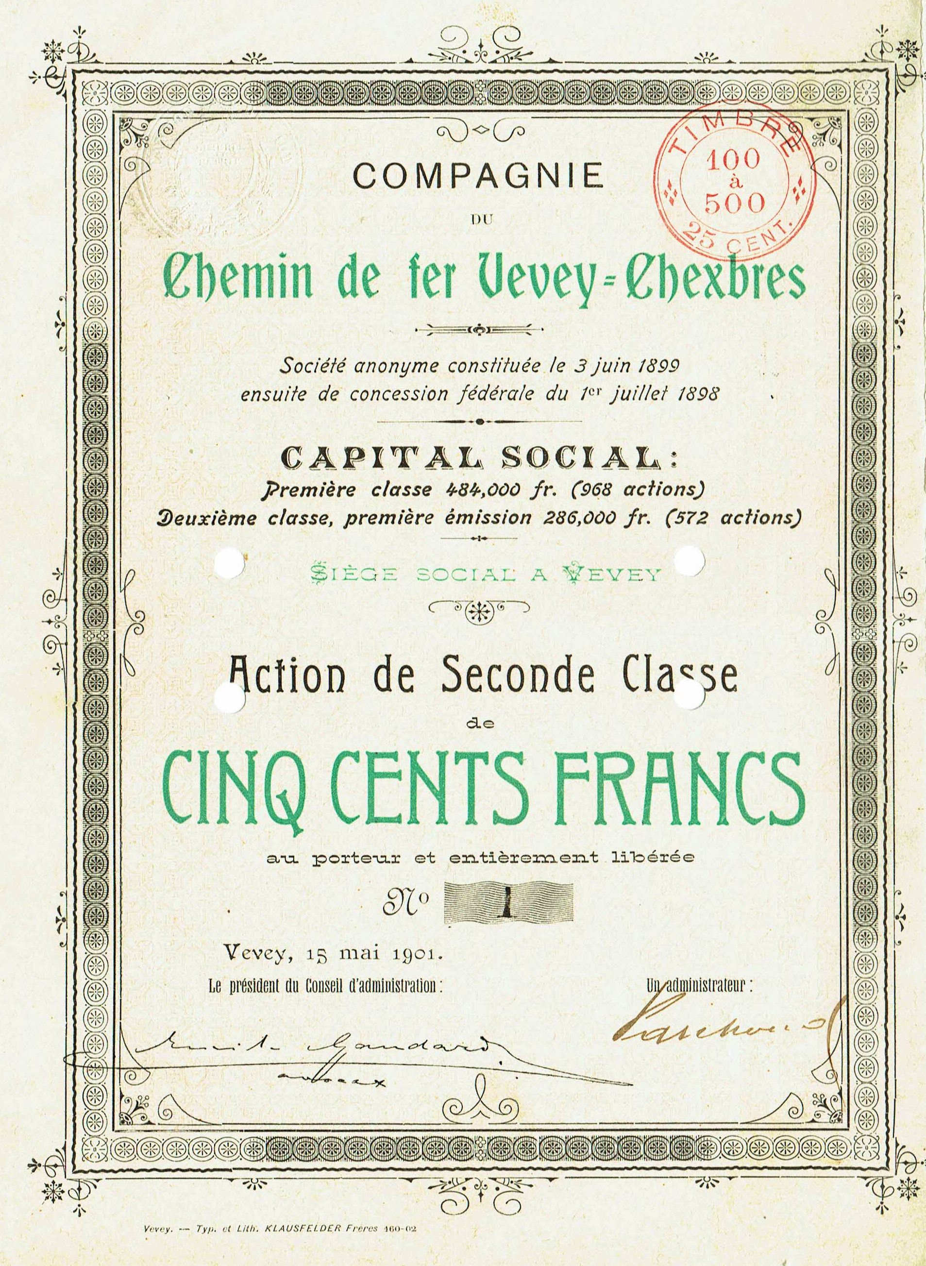 Share of the Compagnie du Chemin de fer Vevey-Chexbres, issued 15. May 1901